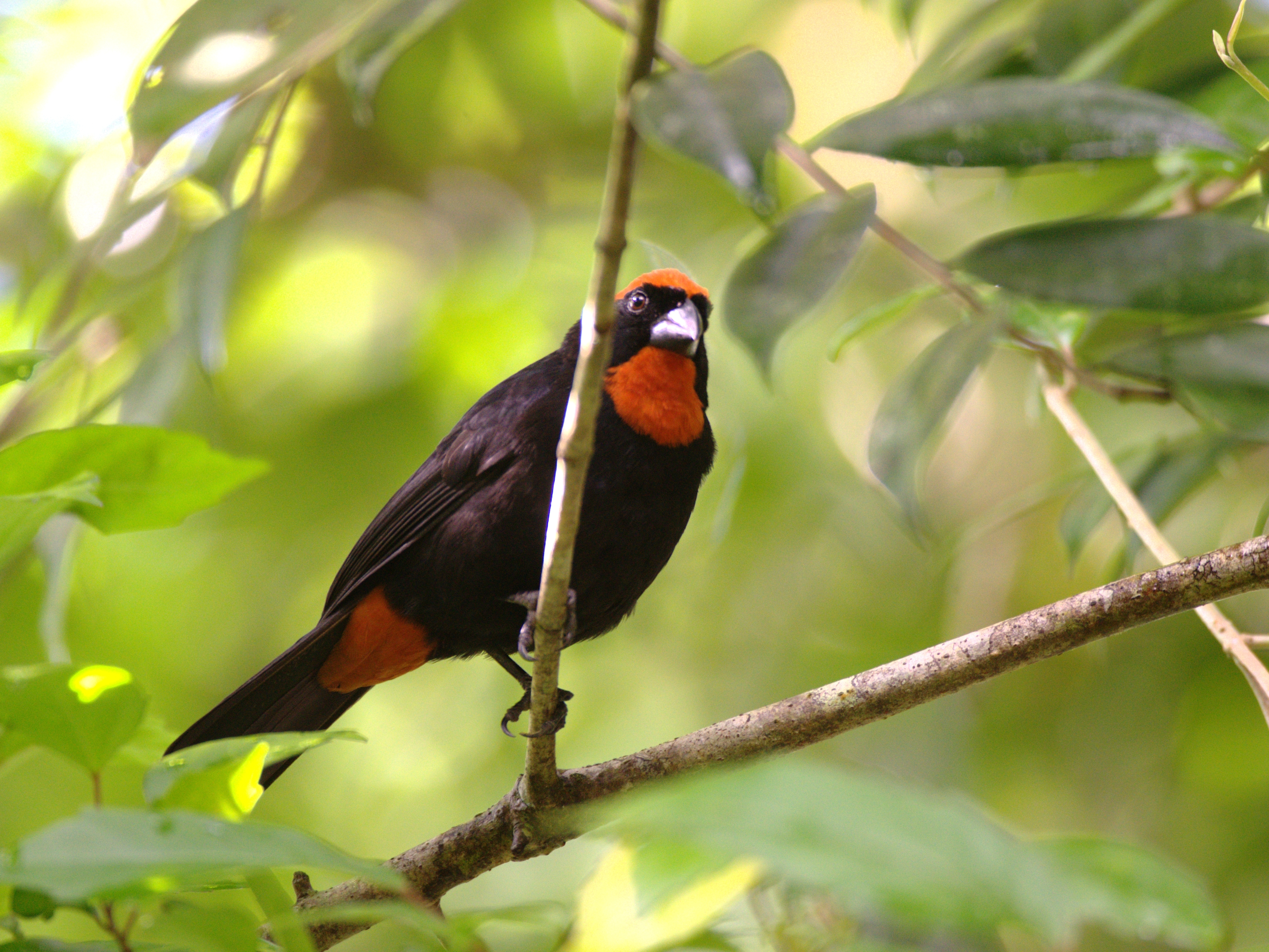 Loxigilla portoricensis - El Yunque, Puerto Rico